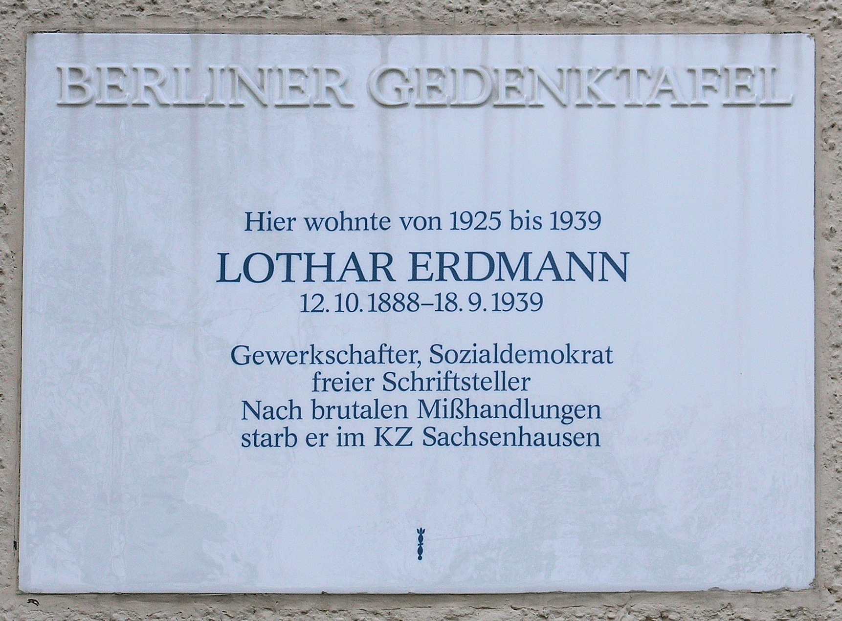 Berlin memorial plaque, Lothar Erdmann, Adolf-Scheidt-Platz 3, Berlin-Tempelhof, Germany Koordinate:52°28′40″N 13°22′44″E / 52.47778°N 13.37889°E